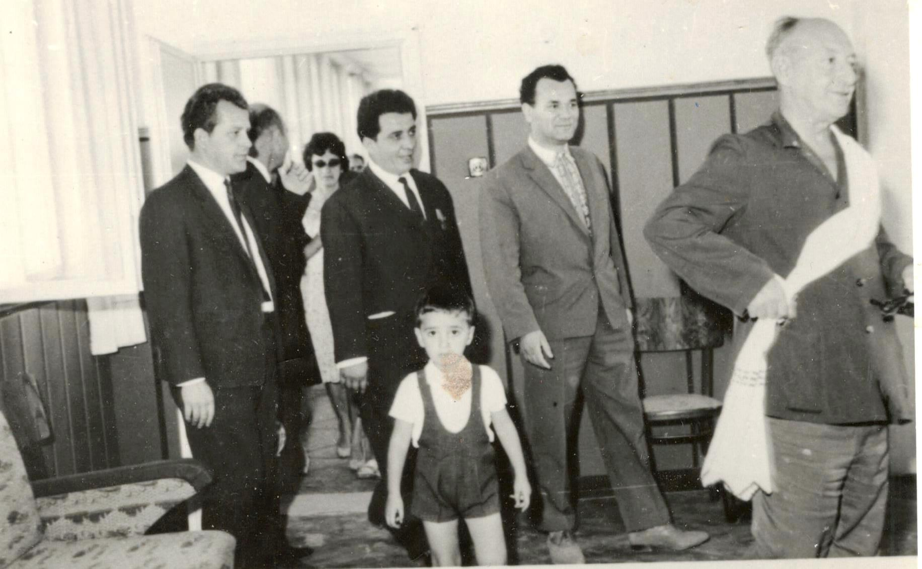 The prime secretary of the Regional Committee of the Bulgarian Communist Party in Razgrad Boncho Mitev (second from right) accompanied by a Soviet delegation visiting the village of Yuper during the 20th anniversary of the local Labour Cooperative Agricultural Union in 1965.